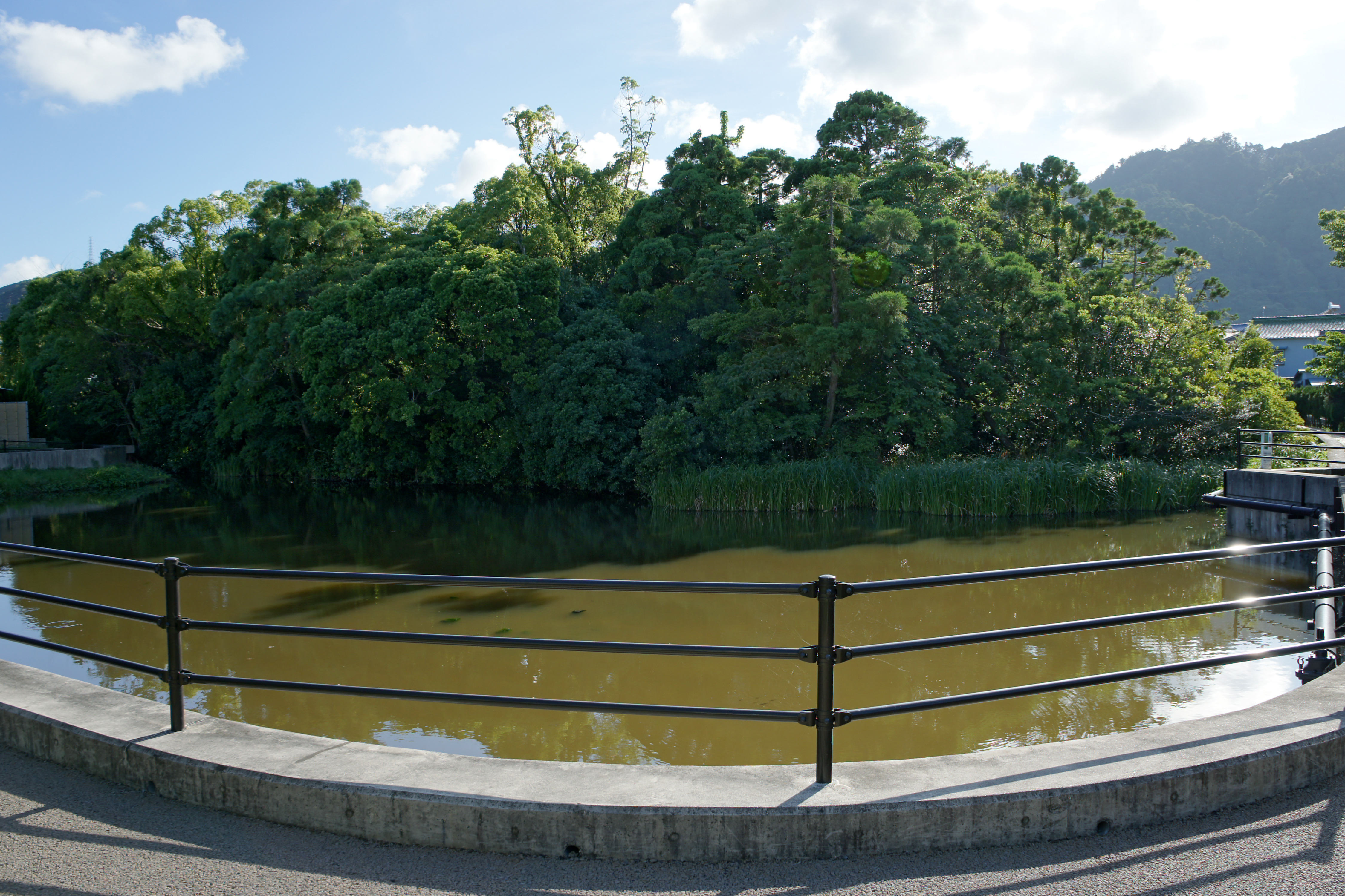 Ukishima-no-mori in Shingū, Wakayama prefecture, Japan